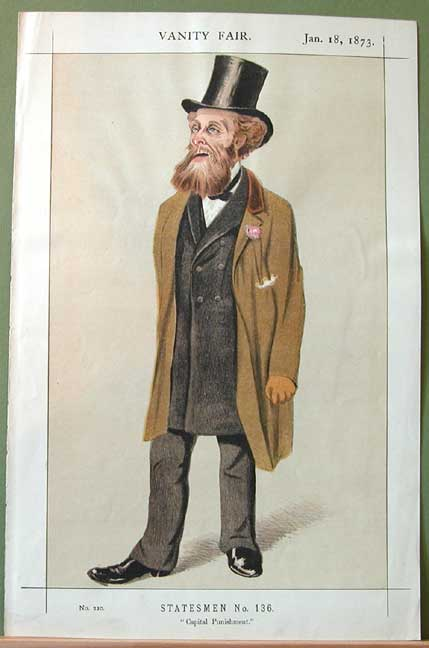 Caricature of Charles Gilpin (1815-1874), British Quaker politician. Caption reads "Capital Punishment".